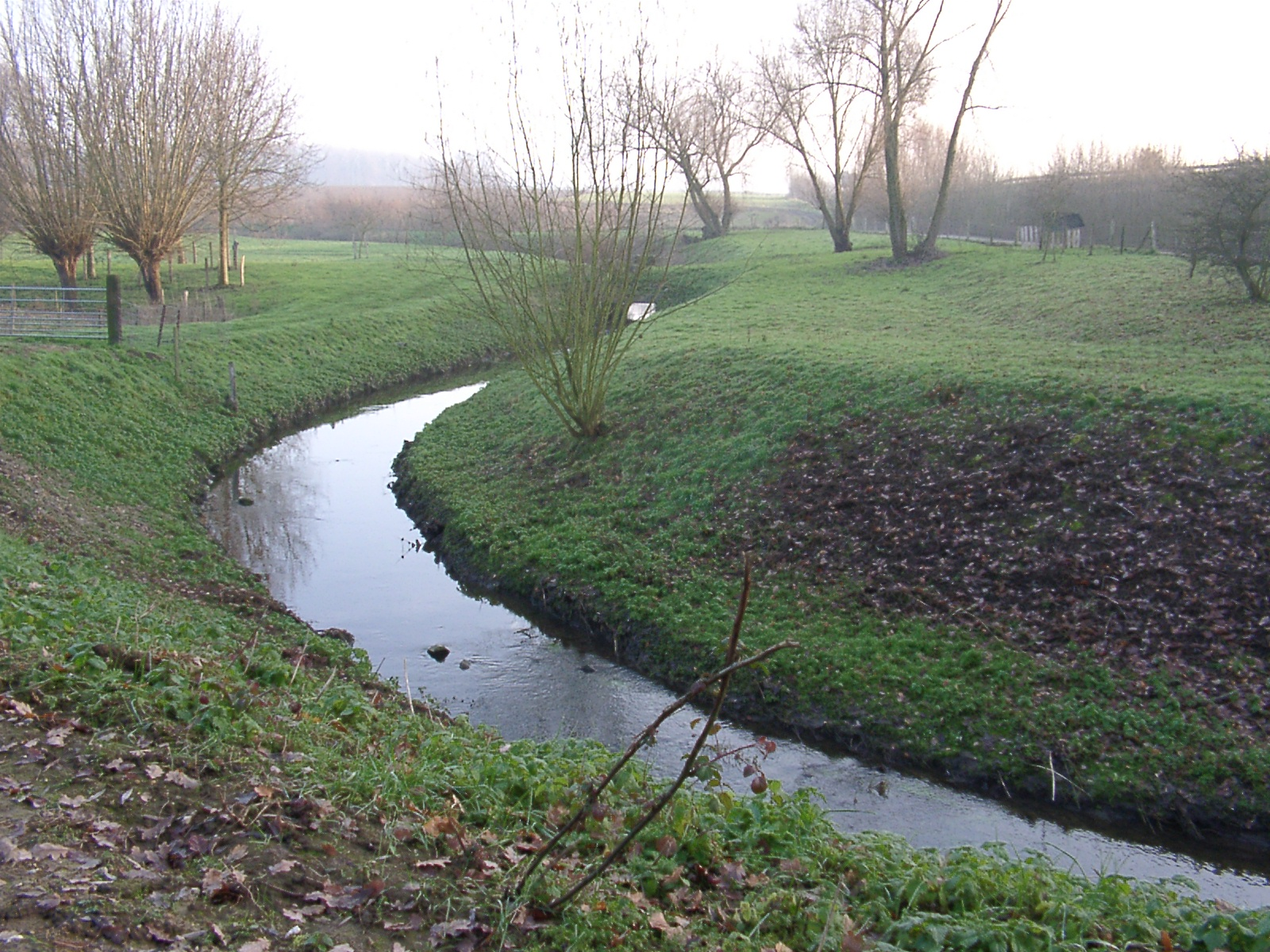 The Geleenbeek in Ten Esschen, The Netherlands.